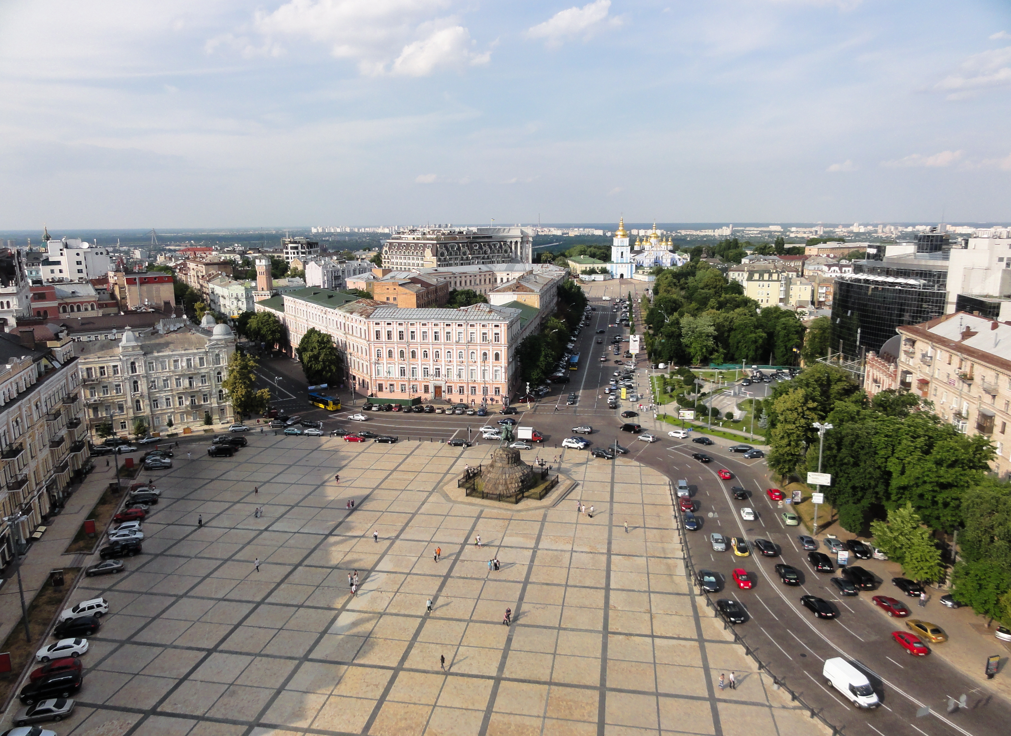 View across Sofiiska Square, Kiev, Ukraine